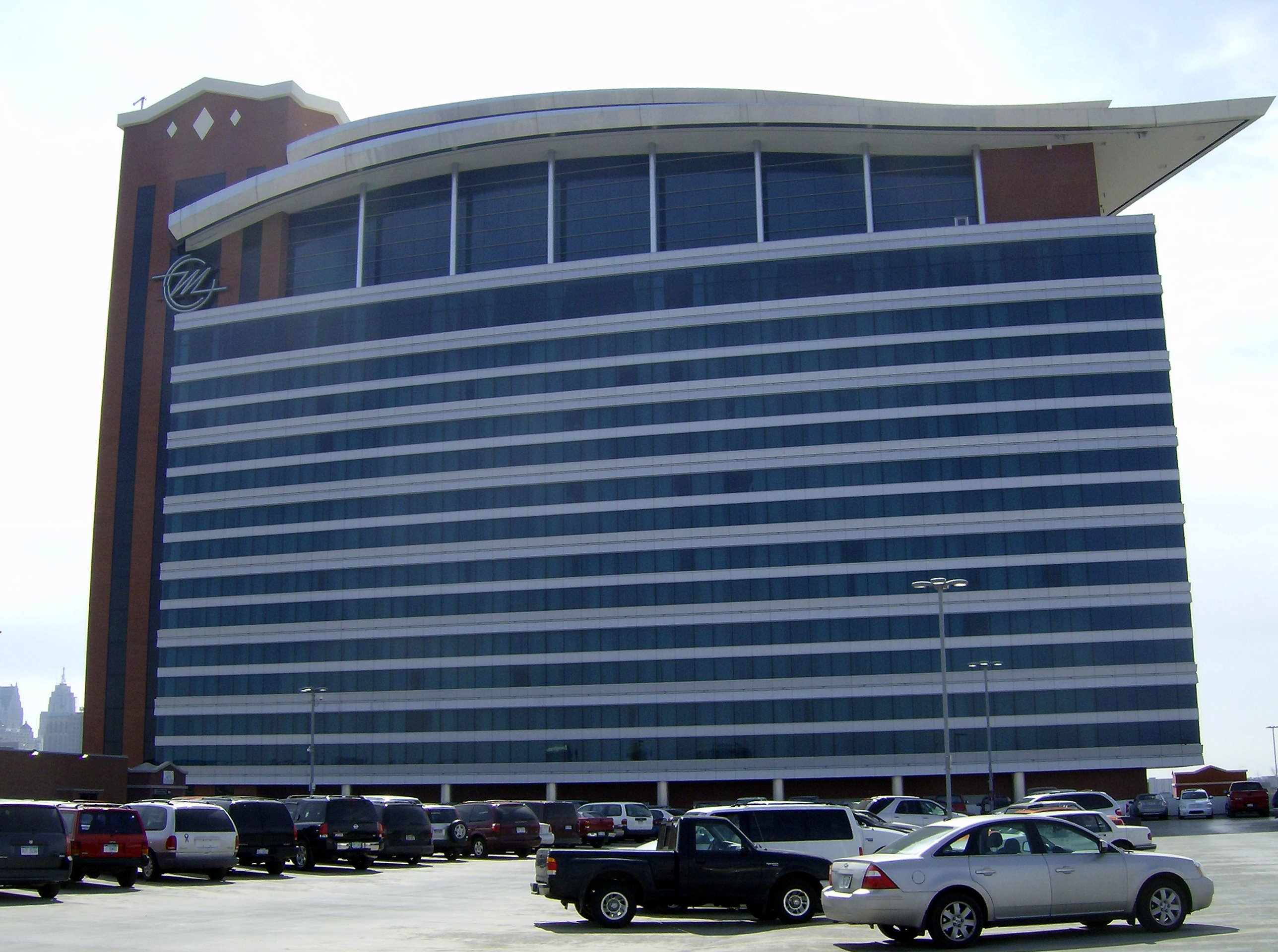 Motor City Casino Hotel Detroit